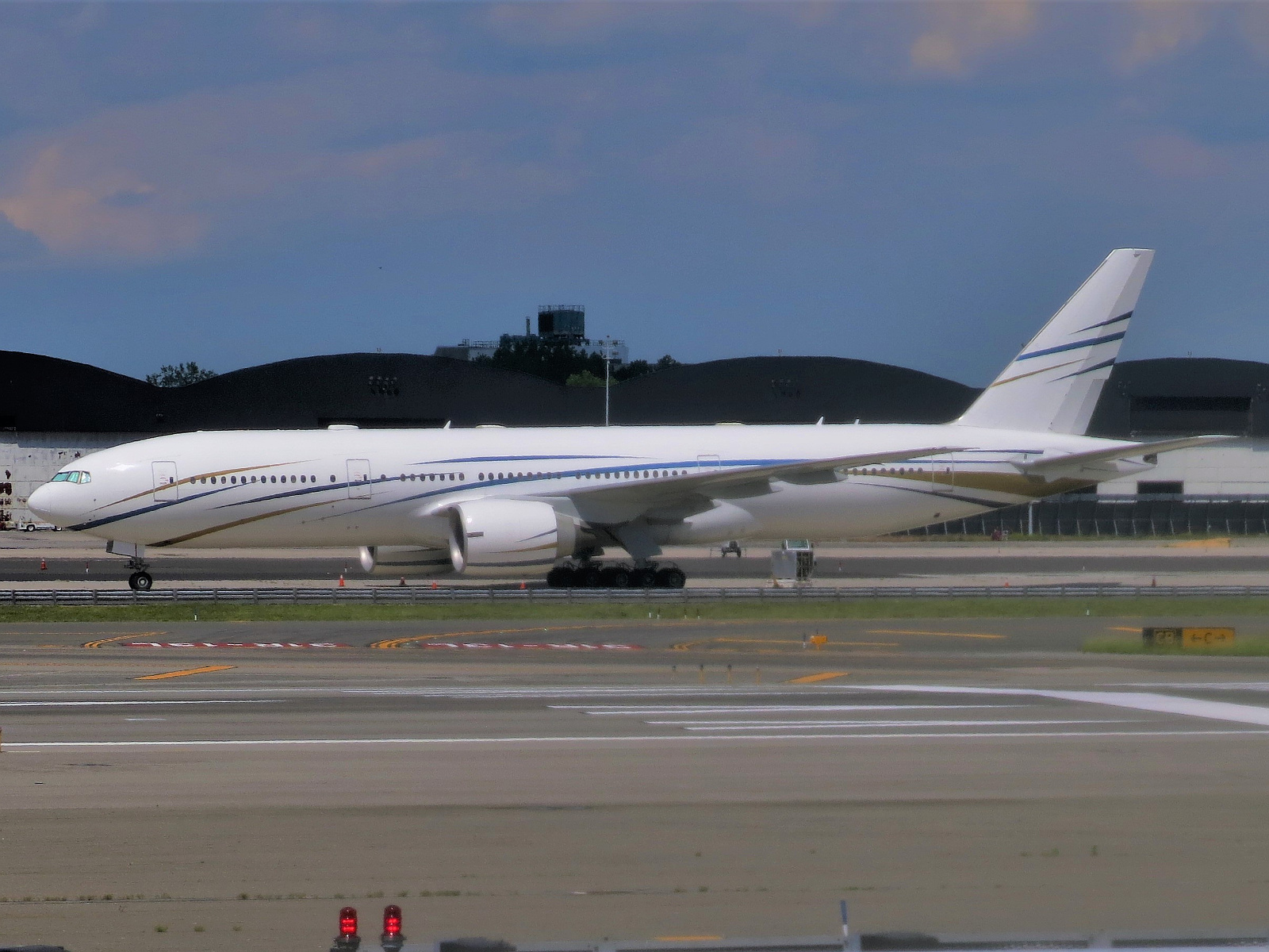 A Mid East Jet Boeing 777-200ER is parked at the new VIP parking area at JFK Airport, near the FedEx Express cargo terminals.